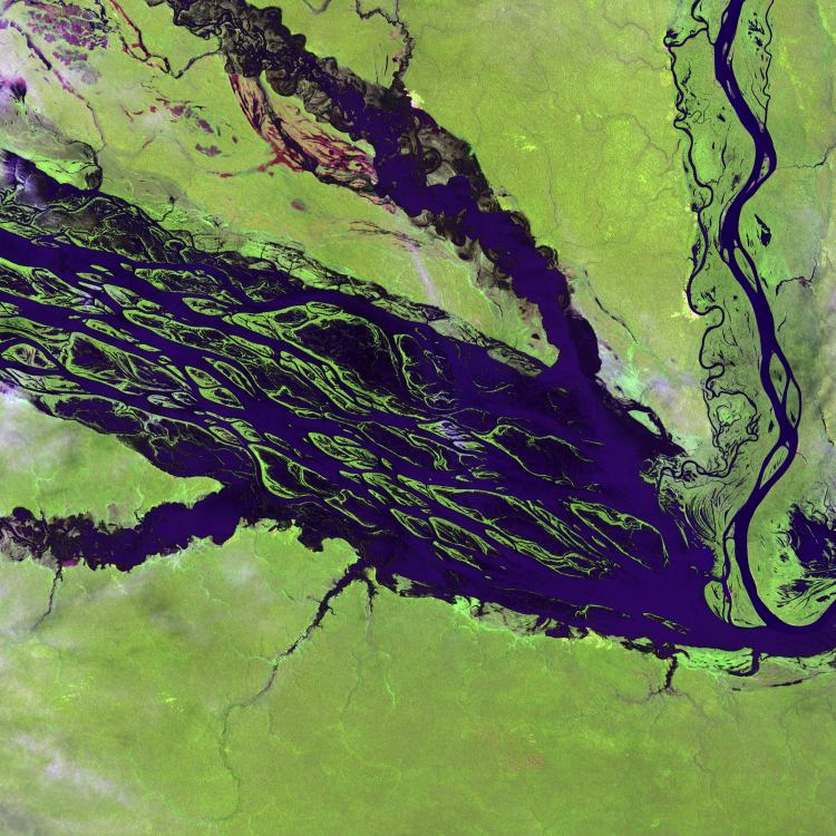 The Negro River flowing through the eastern edge of Brazil’s Jau National Park. The river is the big strip of blue running from left to right across the image, and the other blue ribbons are tributaries. Originating at the border of Venezuela and Brazil, the Negro River meets up with the Amazon in central Brazil to become its largest tributary. Half-submerged islands can be seen in the center of the river. Between November and April when the river is at its peak, many of these islands disappear.